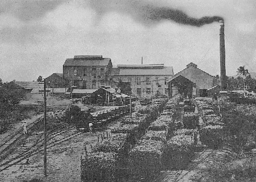 NKK("Nan'yo Kohatsu Kabushikigaisha", English name: "South Seas Development Company") Saipan sugar mill